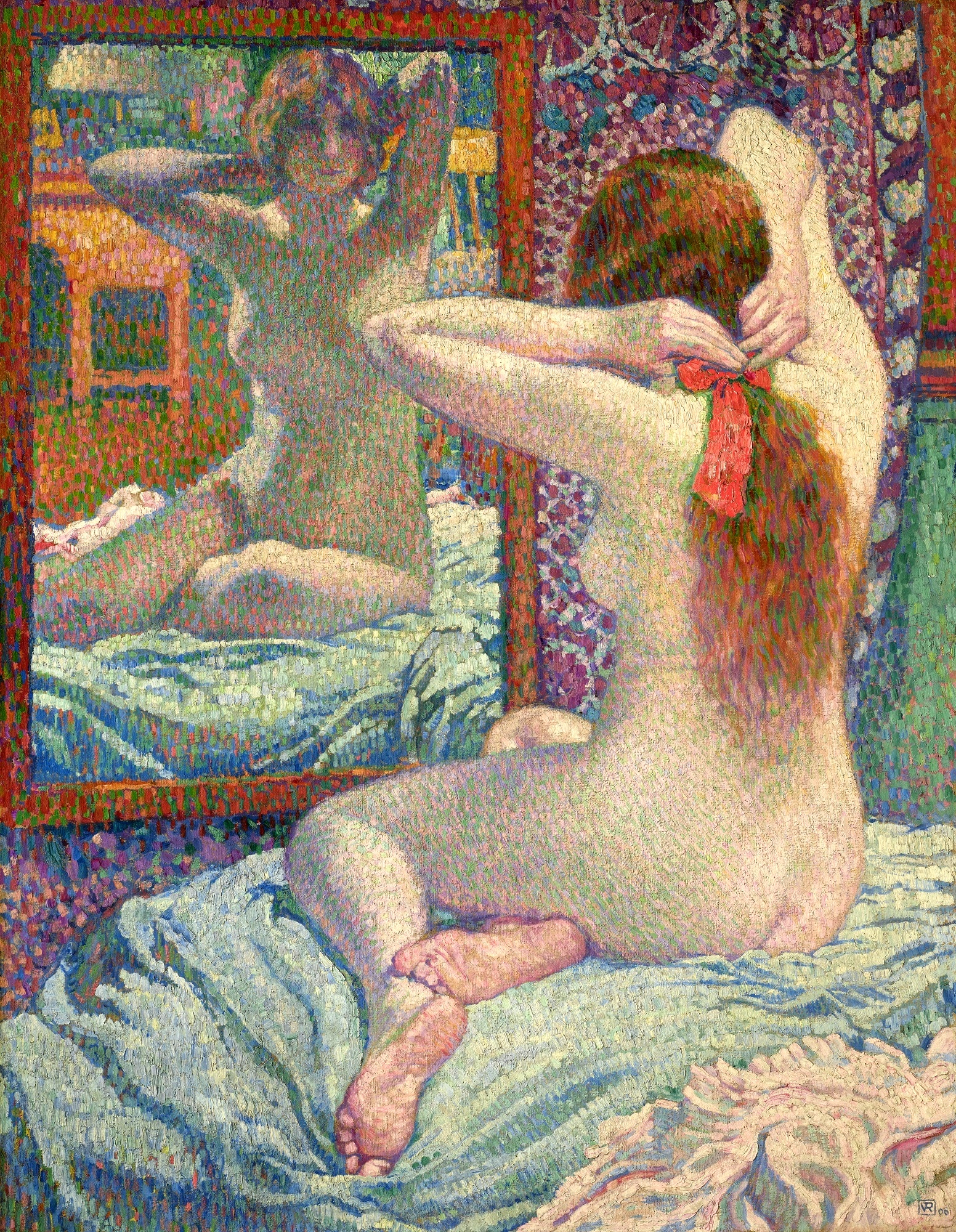 The scarlett ribbon